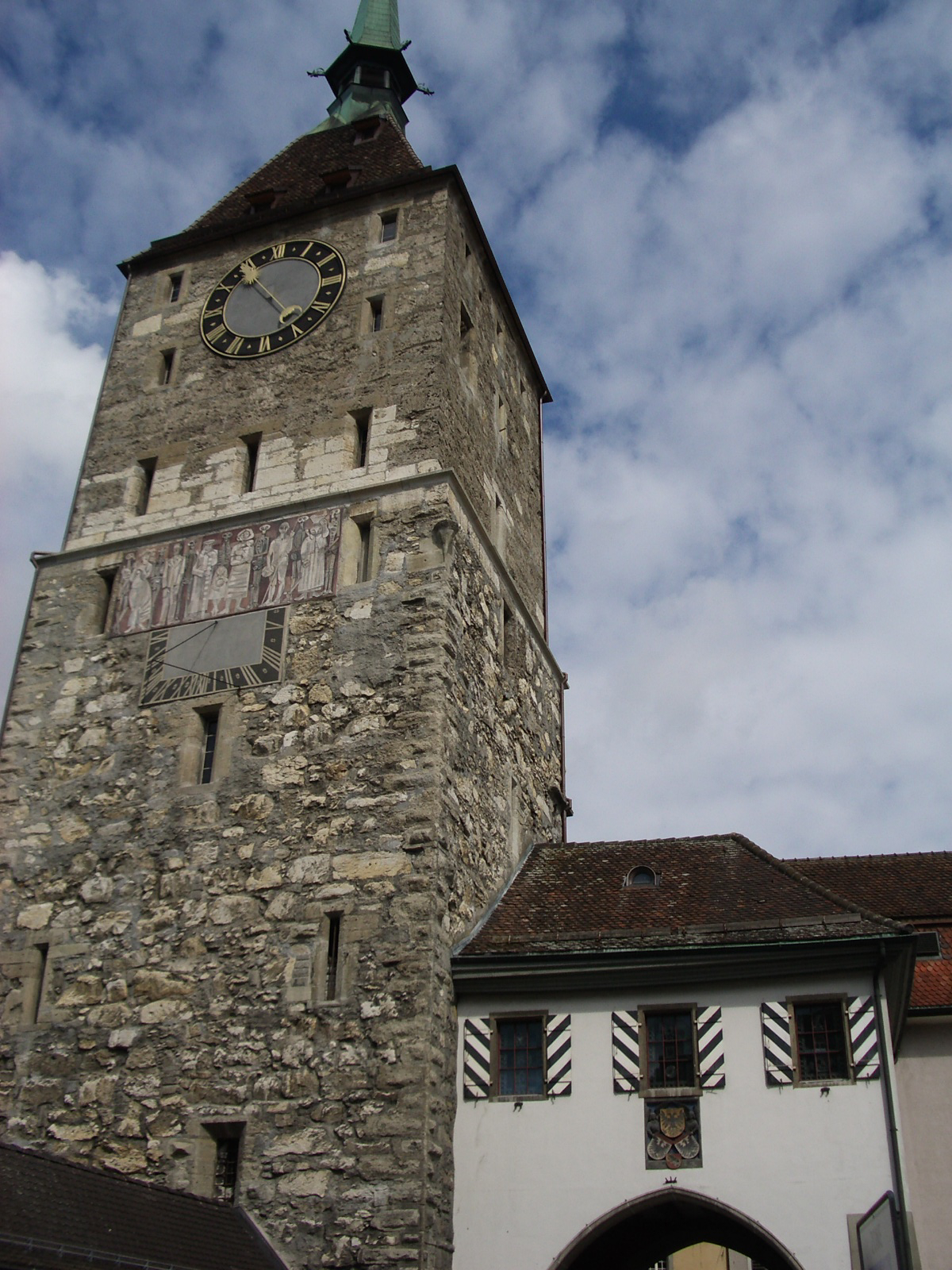 Obertor tower, Aarau, Switzerland